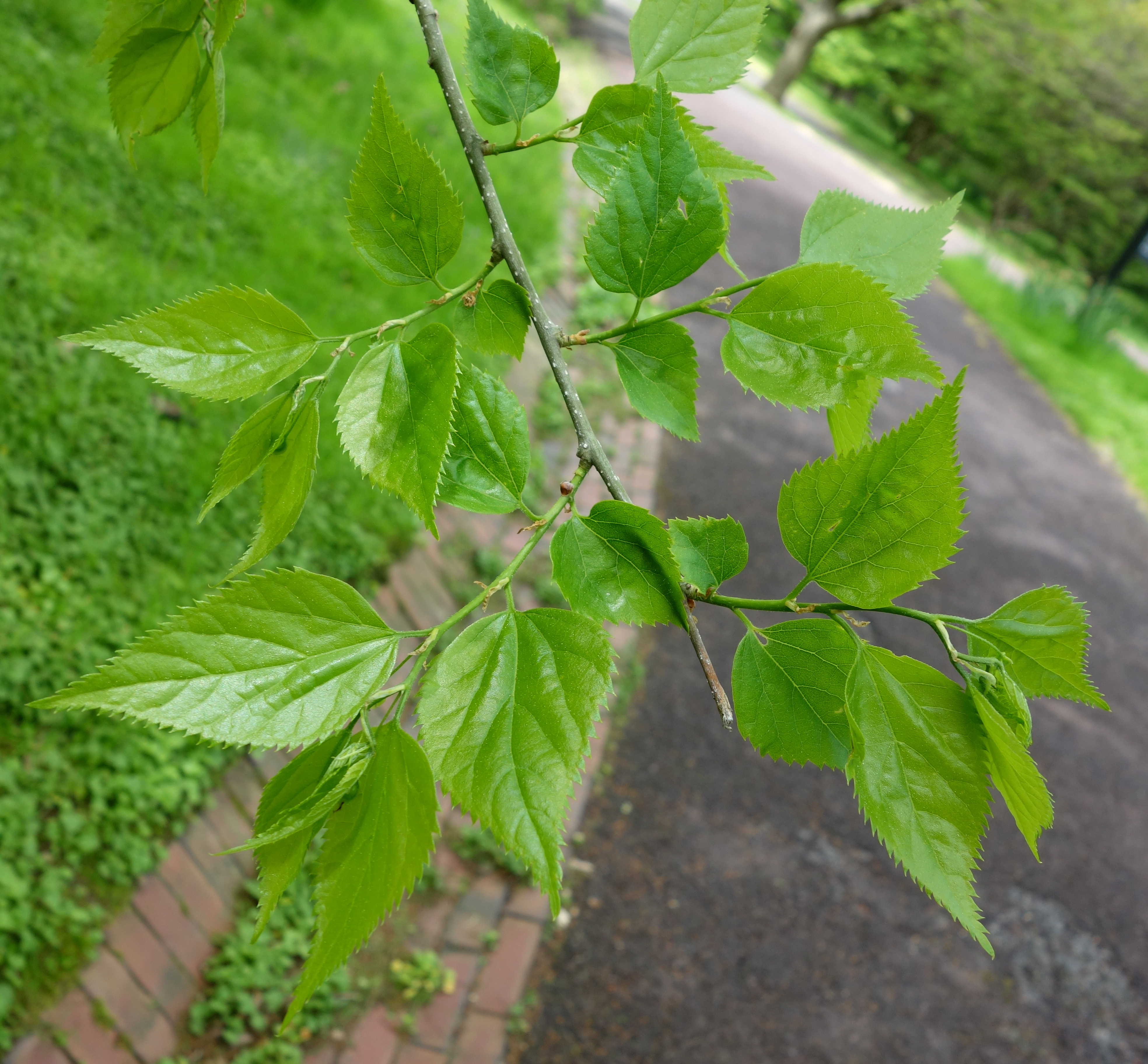 Botanical specimen in the Morris Arboretum, 100 East Northwestern Avenue, Chestnut Hill, Philadelphia, Pennsylvania, USA.